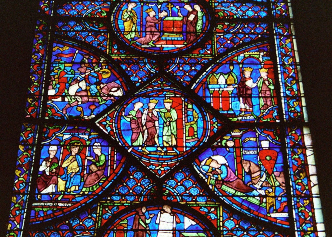 Cathedral of Chartres / Stained glass window detail (13thC): the history of Carolus Magnus / 35mm color film.